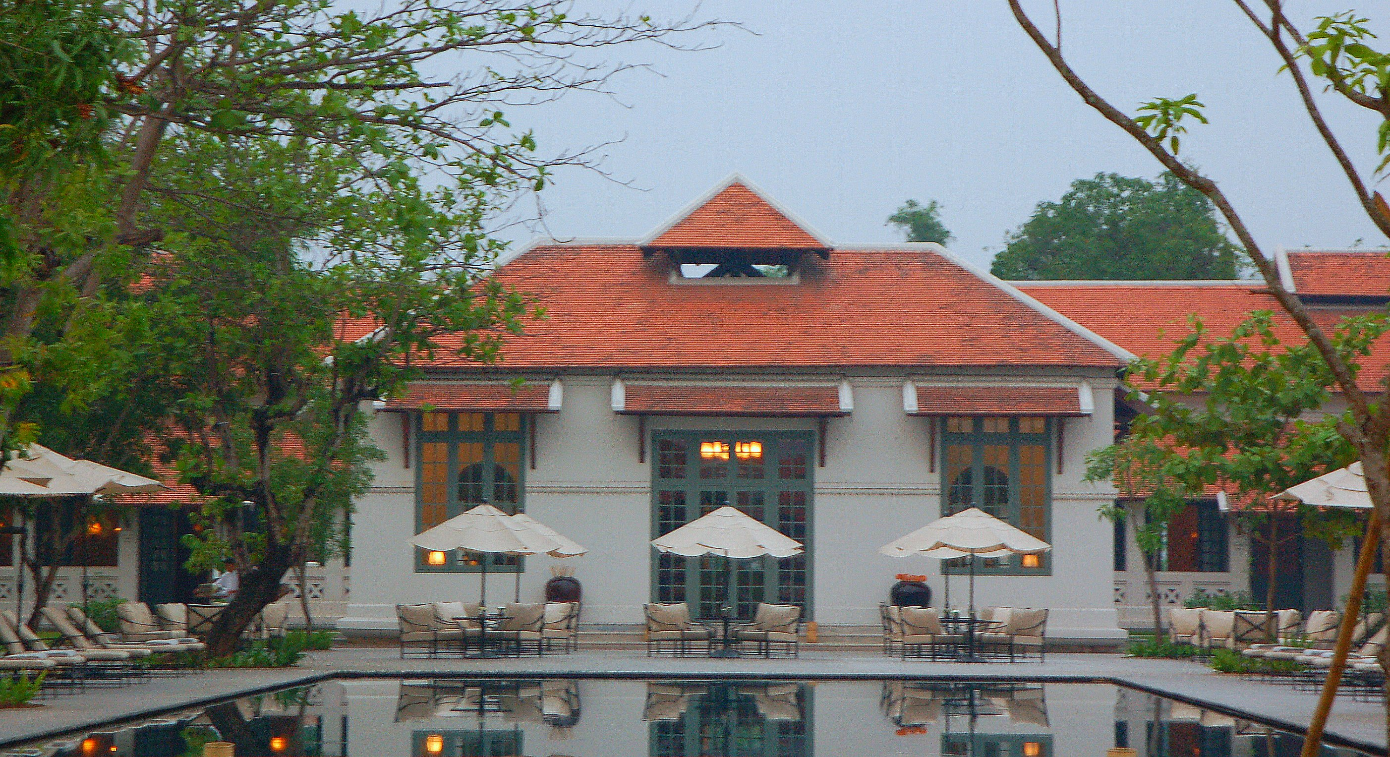 Amantaka Hotel, Luang Prabang, Laos.